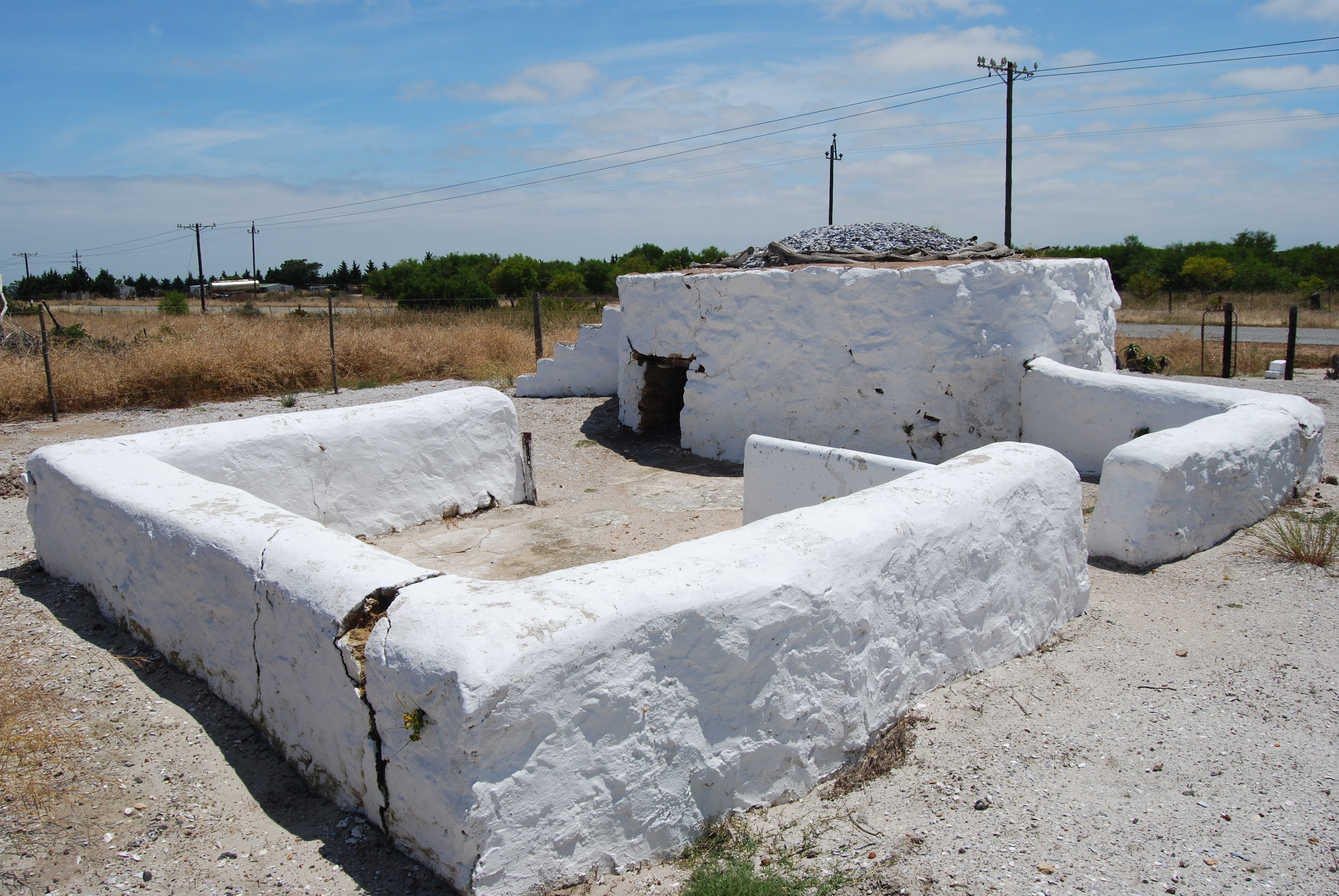 One of two lime kilns on the road to Yzerfontein This media shows a South African Protected Site with SAHRA file reference 9/2/060/0014.